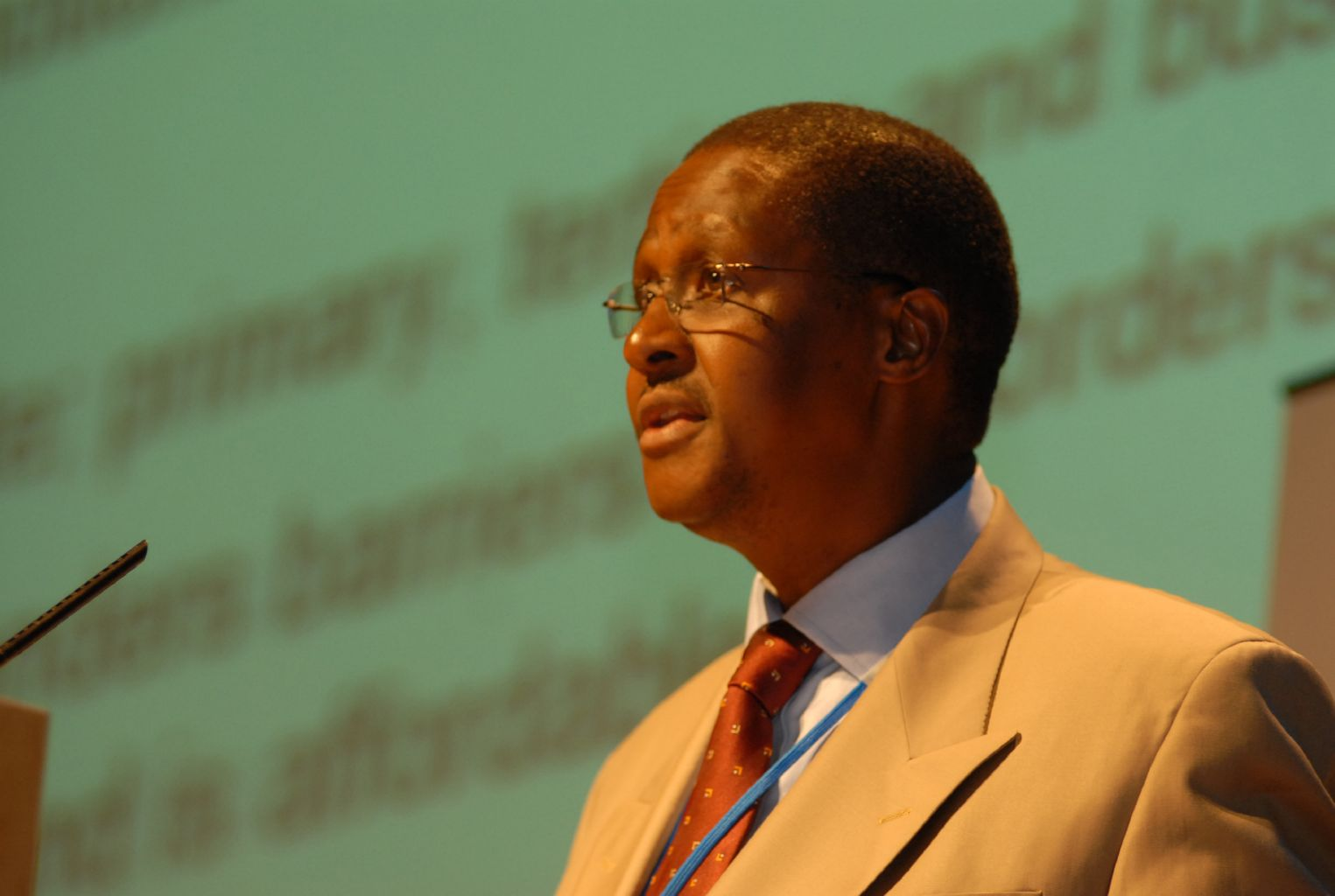 Vice-Chancellor & Principal of the University of South Africa, Barney Pityana